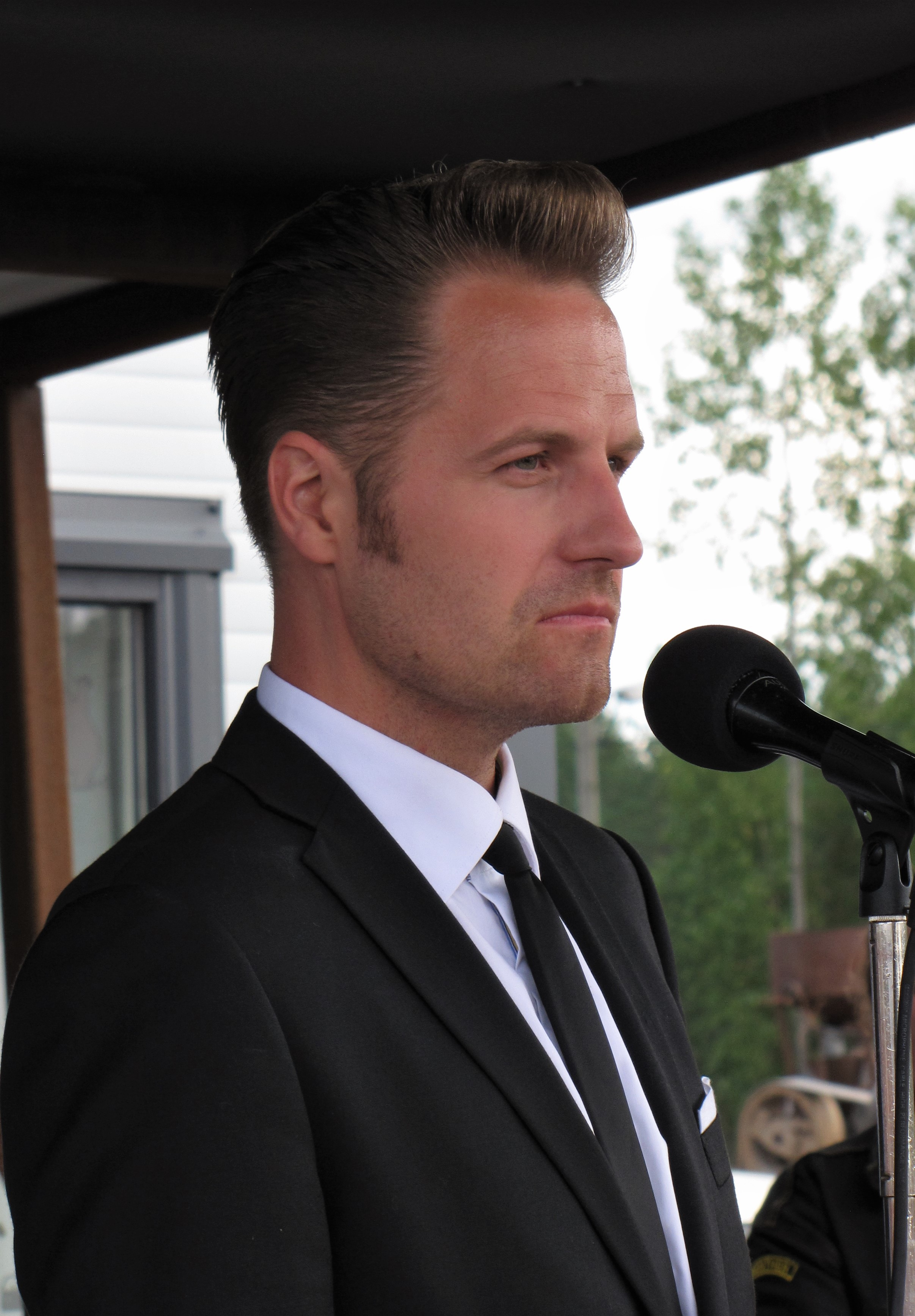 Kyösti Mäkimattila, a Finnish singer.